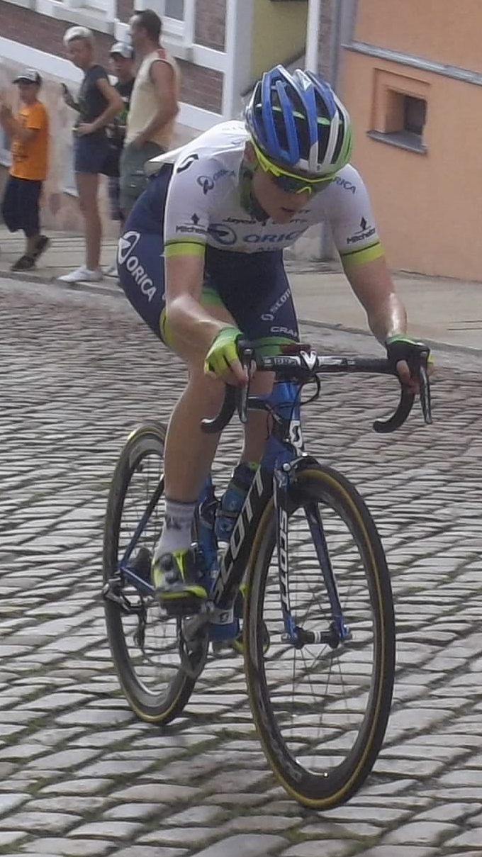 Gracie Elvin in the Meerane "steile Wand" during stage 3b of Thüringen Rundfahrt 2015